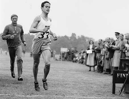 William Grut winning the gold medal for modern pentathlon at the 1948 Summer Olympics. Sune Wehlin, another Swedish modern pentathletes can be seen in the background.